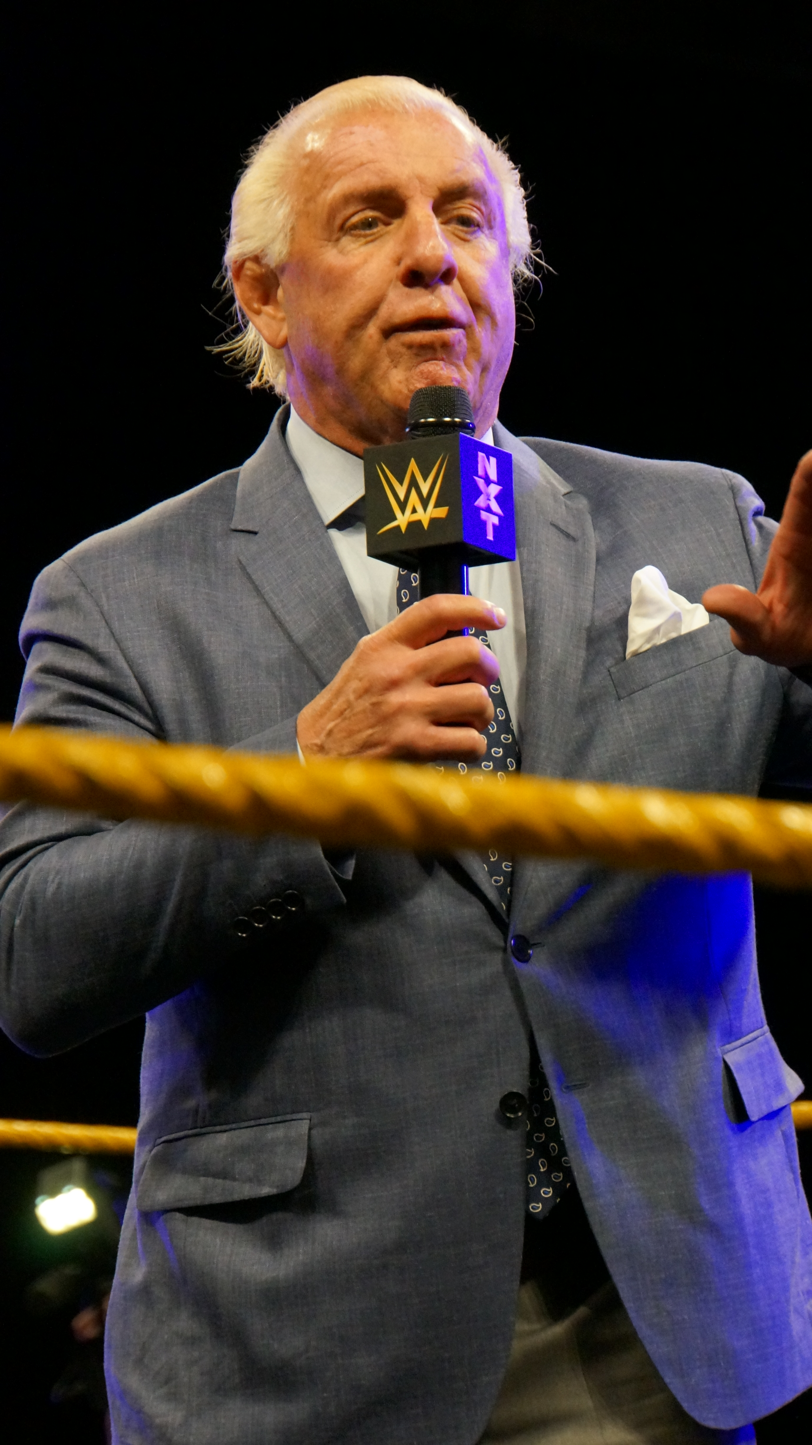 Ric Flair, on an episode of WWE NXT 2014-04-04_20-10-07_NEX-6_DSC07535